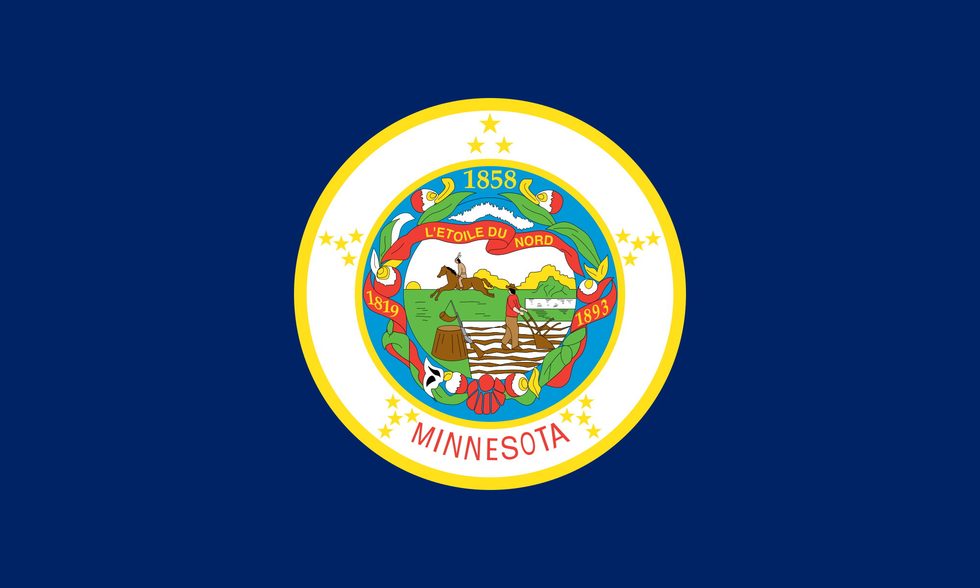 Flag of Minnesota